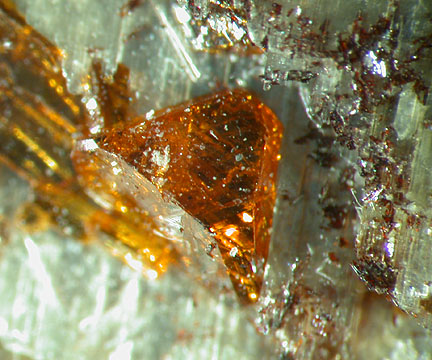 Microlite, Muscovite Locality: Ipê mine, Governador Valadares, Doce valley, Minas Gerais, Southeast Region, Brazil (Locality at ) Size: 2.2 x 1.7 x 0.6 cm. This specimen features several transparent golden-orange crystals of the rare oxide Microlite on yellowish-green Muscovite from the Ipê mine in Brazil. These crystals are some of the best quality (despite their small size) Microlite crystals you'll find. A great little specimen for one of the less common oxides out there. Ex. Brian Kosnar Collection.